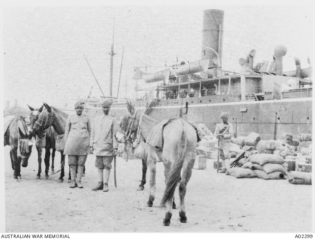 Alexandria, Egypt. c. 1915. Members of the Indian Mule Corps with their animals about to embark for Gallipoli.